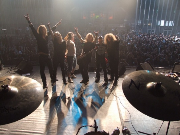 Photo of belgian neoclassic metal band Iron Mask made at the Power & Prog Metal Fest on 30/04/2011 (Mons, Belgium)